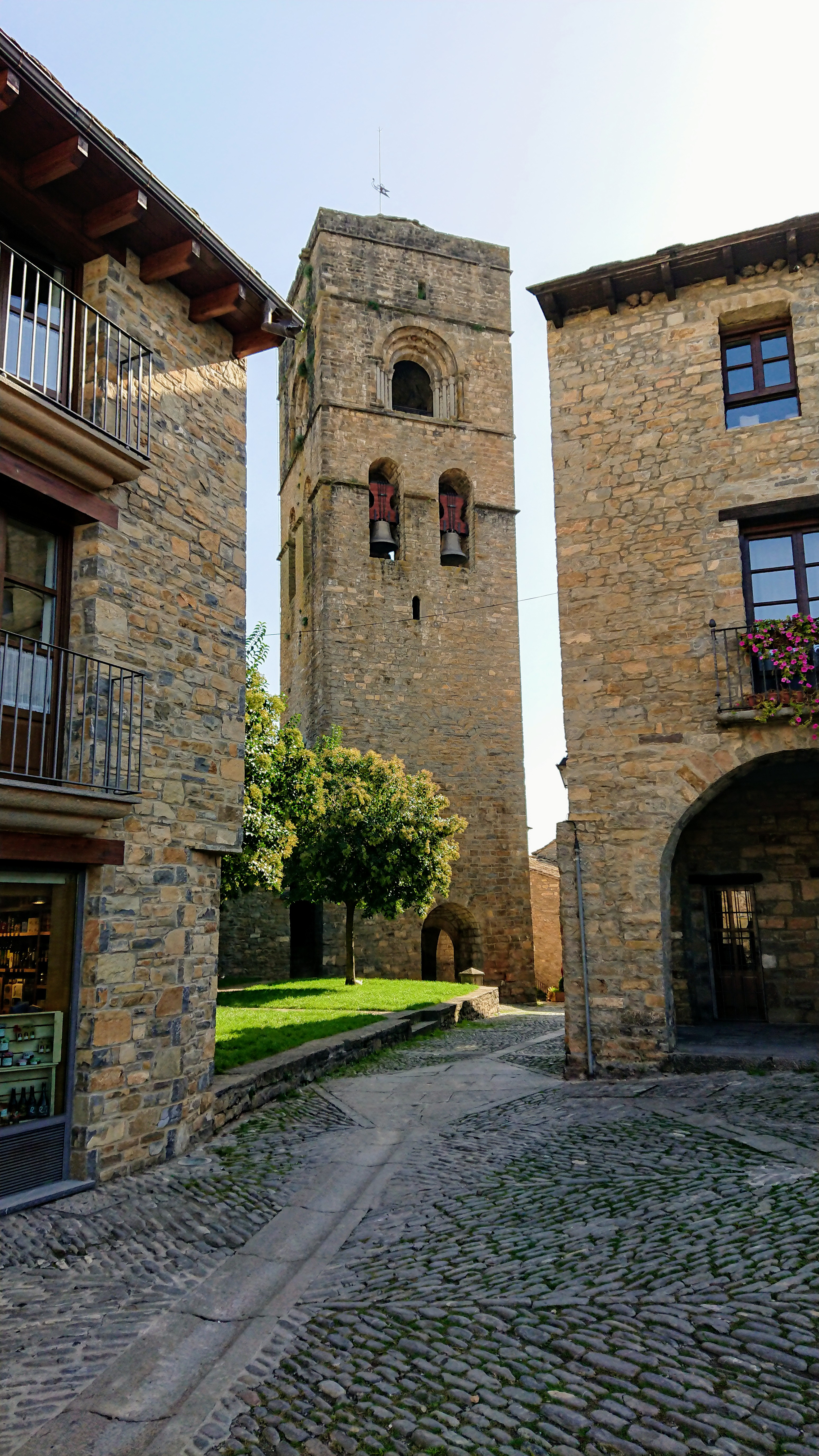 Santa Maria Church Tower, Ainsa, Spain